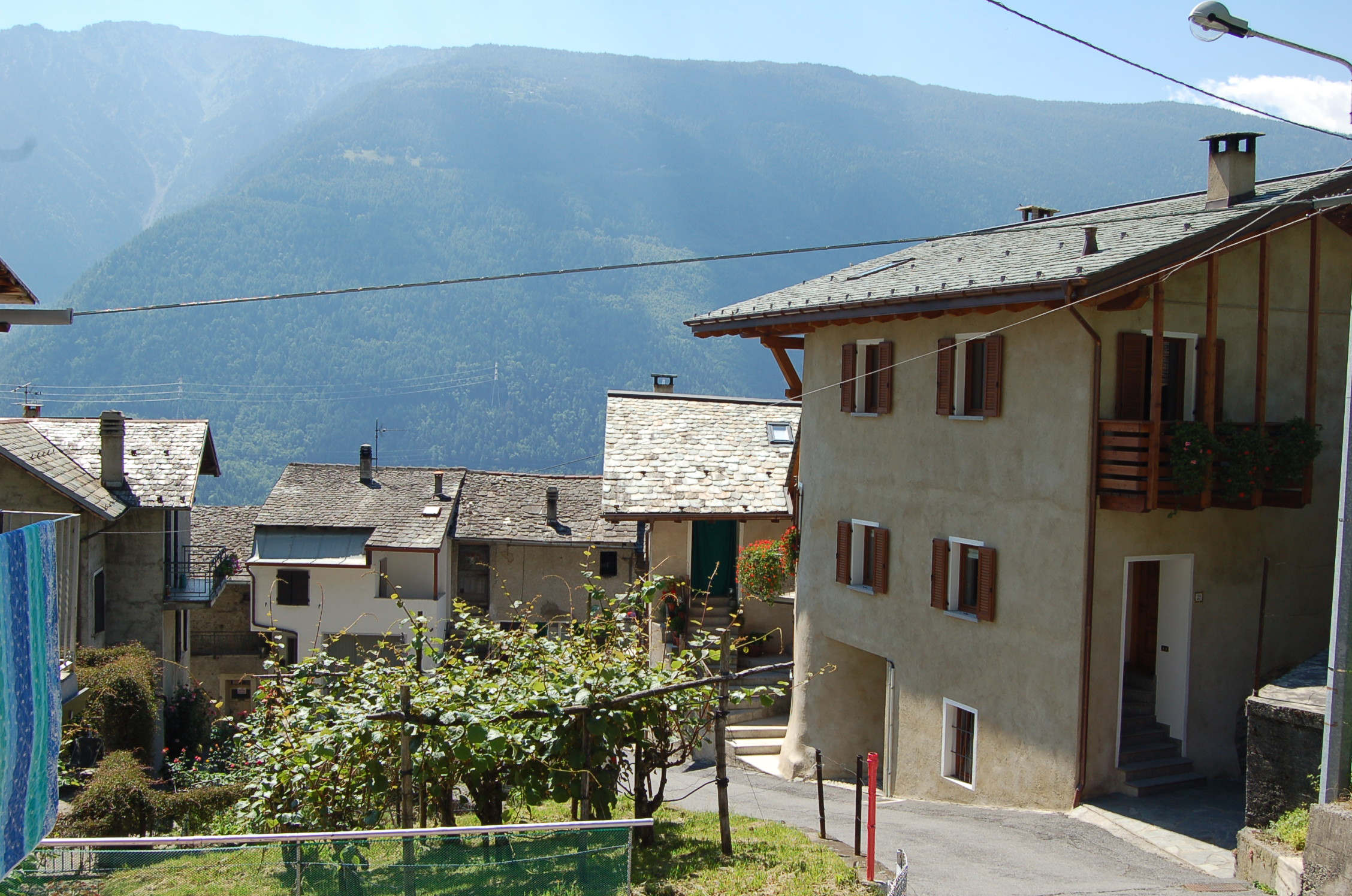 ondrio